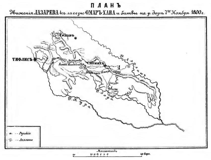 Plan of the movement of Gen. Lazarev's troops against the Avar khan Umma in Kakheti, eastern Georgia, in 1800